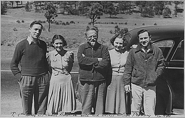 Leo Trotzki with Harry De Boer and James H. Bartlett and their spouses in Mexico in 1940